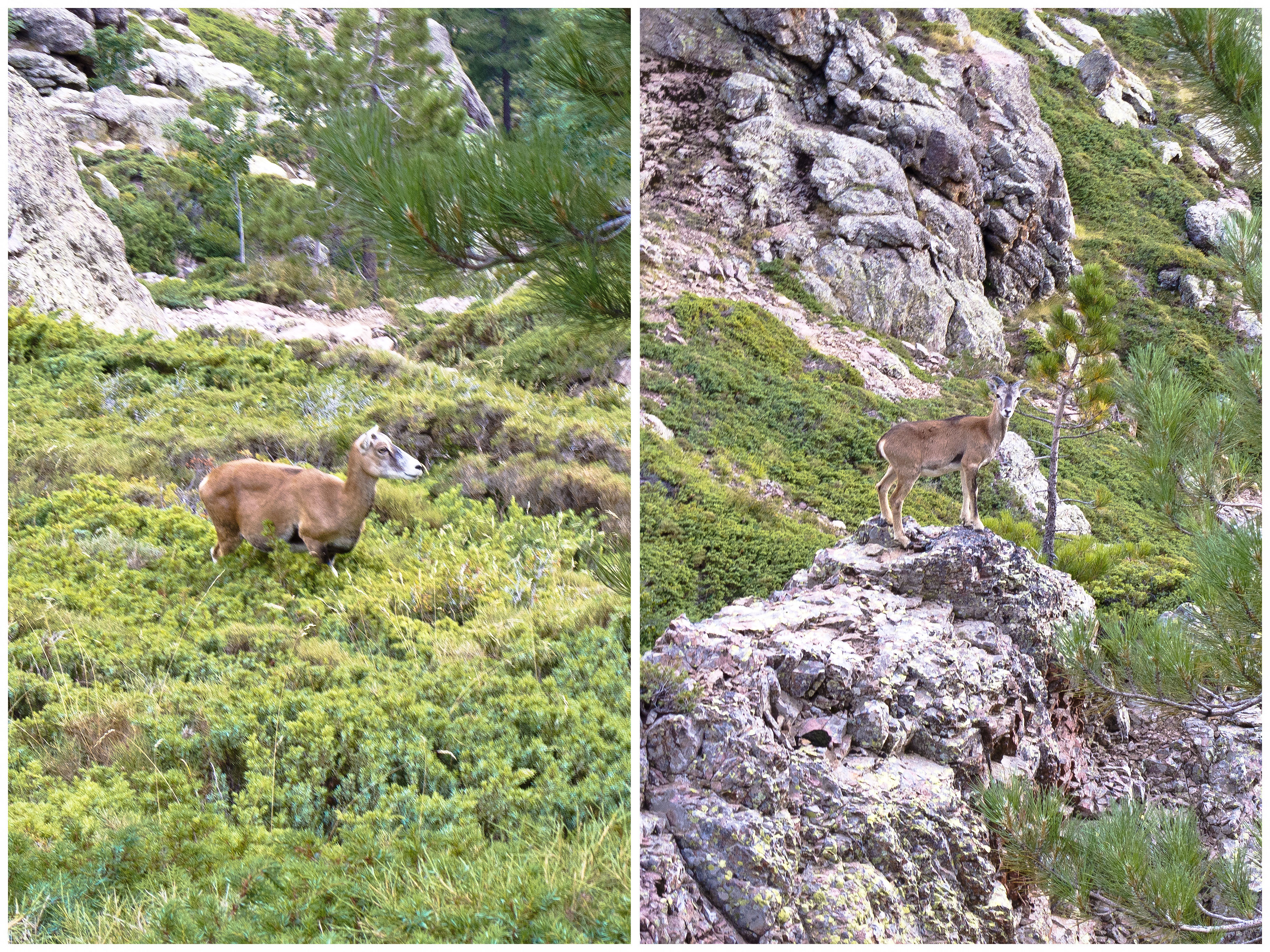 Muflons, Bocca Innominata, above the Carrozzu hut, North Corsica, 08:09 2014:08.31, 1860 m Reference